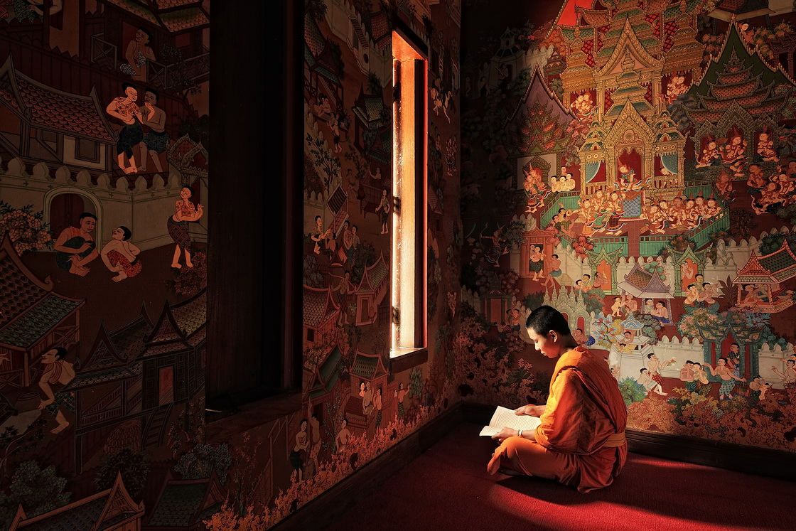 Sri Khom Kham Temple2